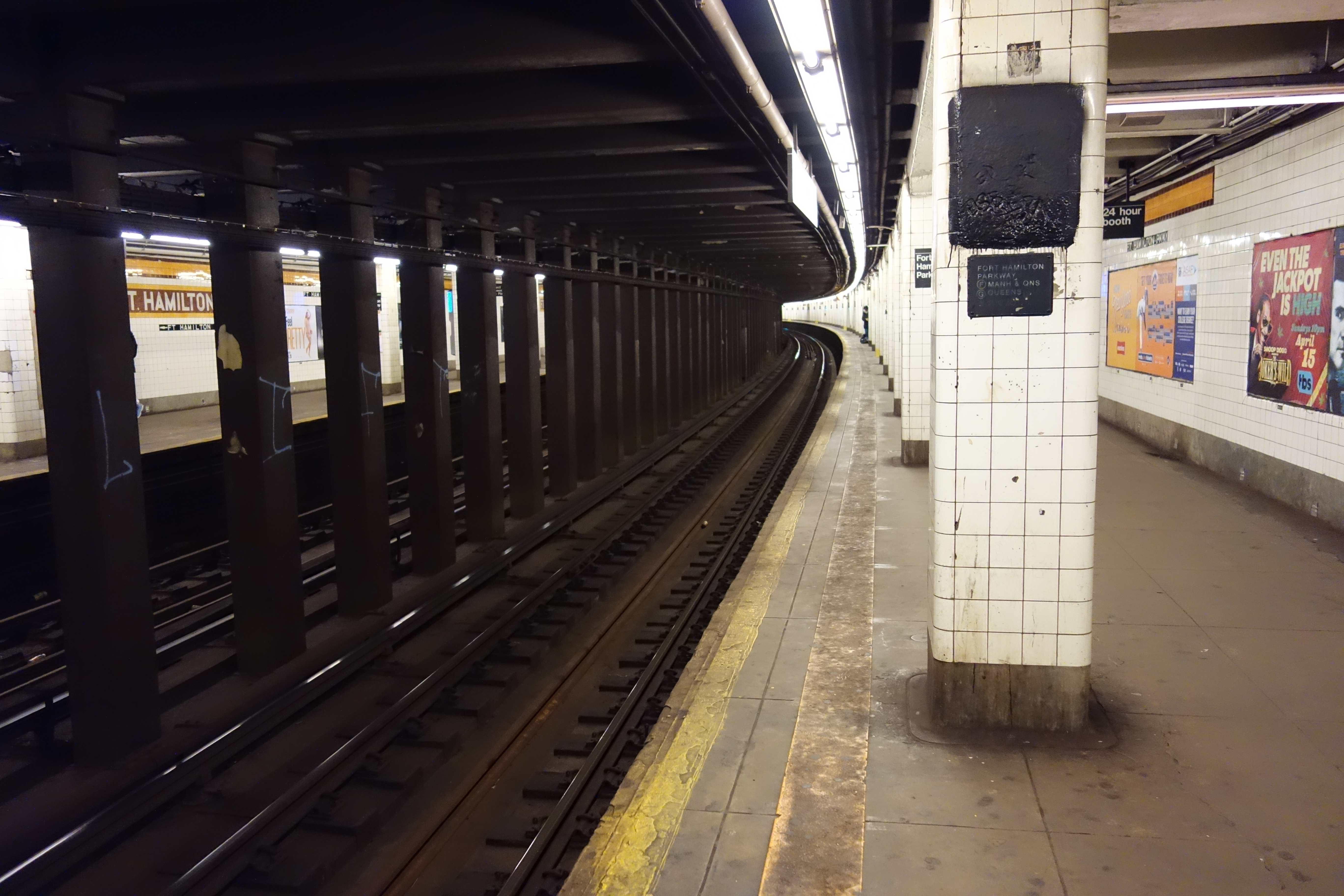 Looking north along the Manhattan and Queens-bound platform from the south end of the Fort Hamilton Parkway IND station, underneath Greenwood Playground and Prospect Avenue / Prospect Expressway at Fort Hamilton Parkway and East 5th Street in Windsor Terrace, Brooklyn. This station has several minor visual quirks, such as its tiled beams and its curved platform. Its major quirk is that a second level of express tracks runs underneath, with a provision at the south/west end of the station for an extension along Fort Hamilton Parkway to Bay Ridge and/or Staten Island.